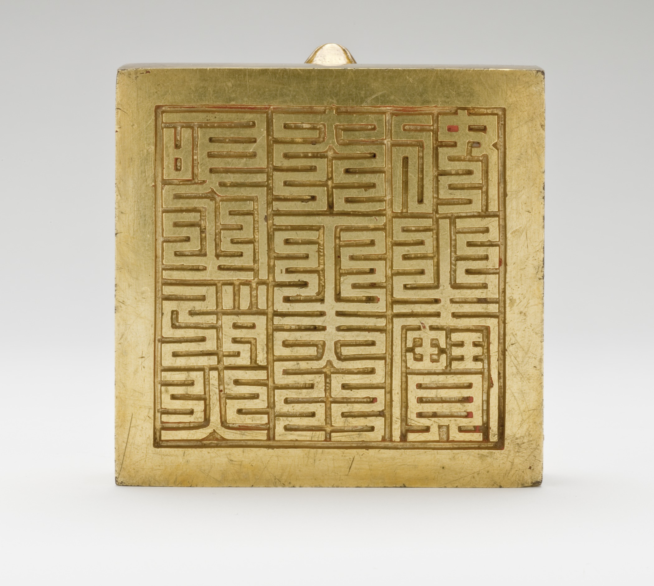 Korea, Joseon dynasty (1392-1910), late 16th-17th century Tools and Equipment; seals Cast bronze with gilding Purchased with Museum Funds (M.2000.15.187) Korean Art